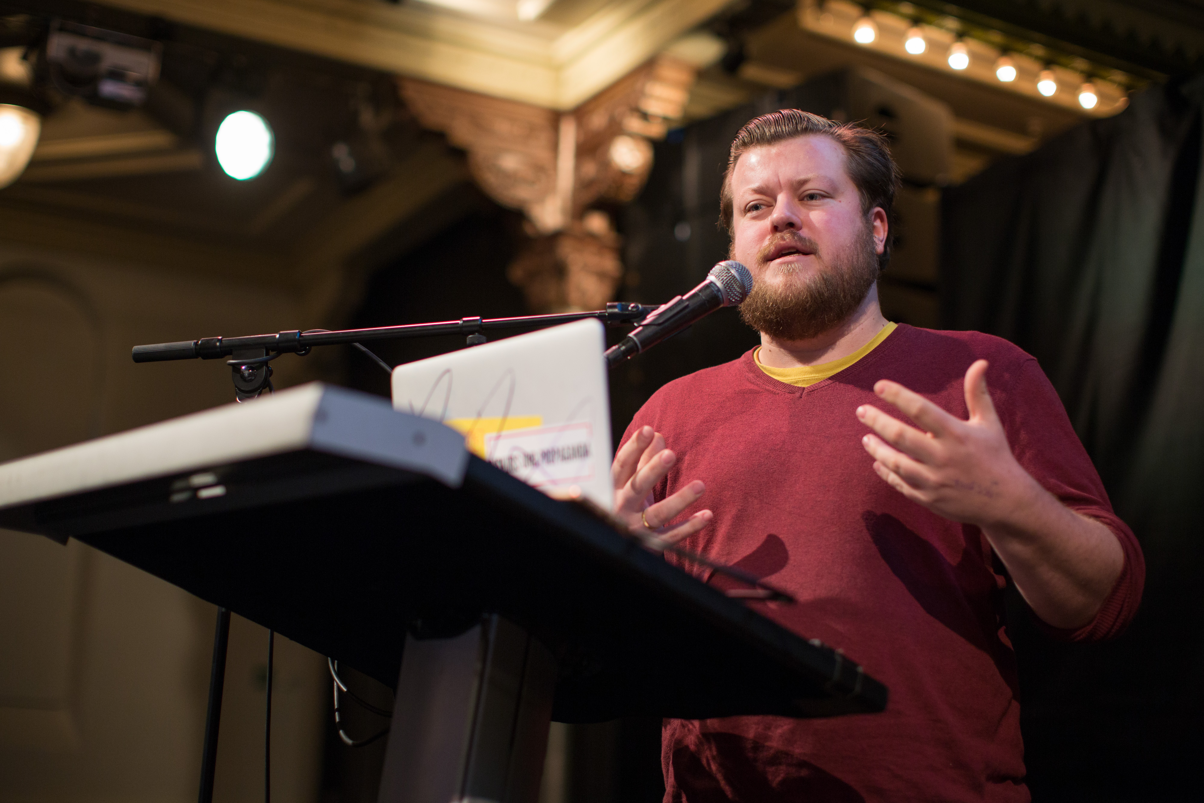 The Crypto Design Challenge was a shout out to artists, designers and researchers to create new conceptualizations of the deep web: the hidden realm that contains an estimated 96% of all the content to be found circulating online. The winners of the Crypto Design Awards were announced during this event.